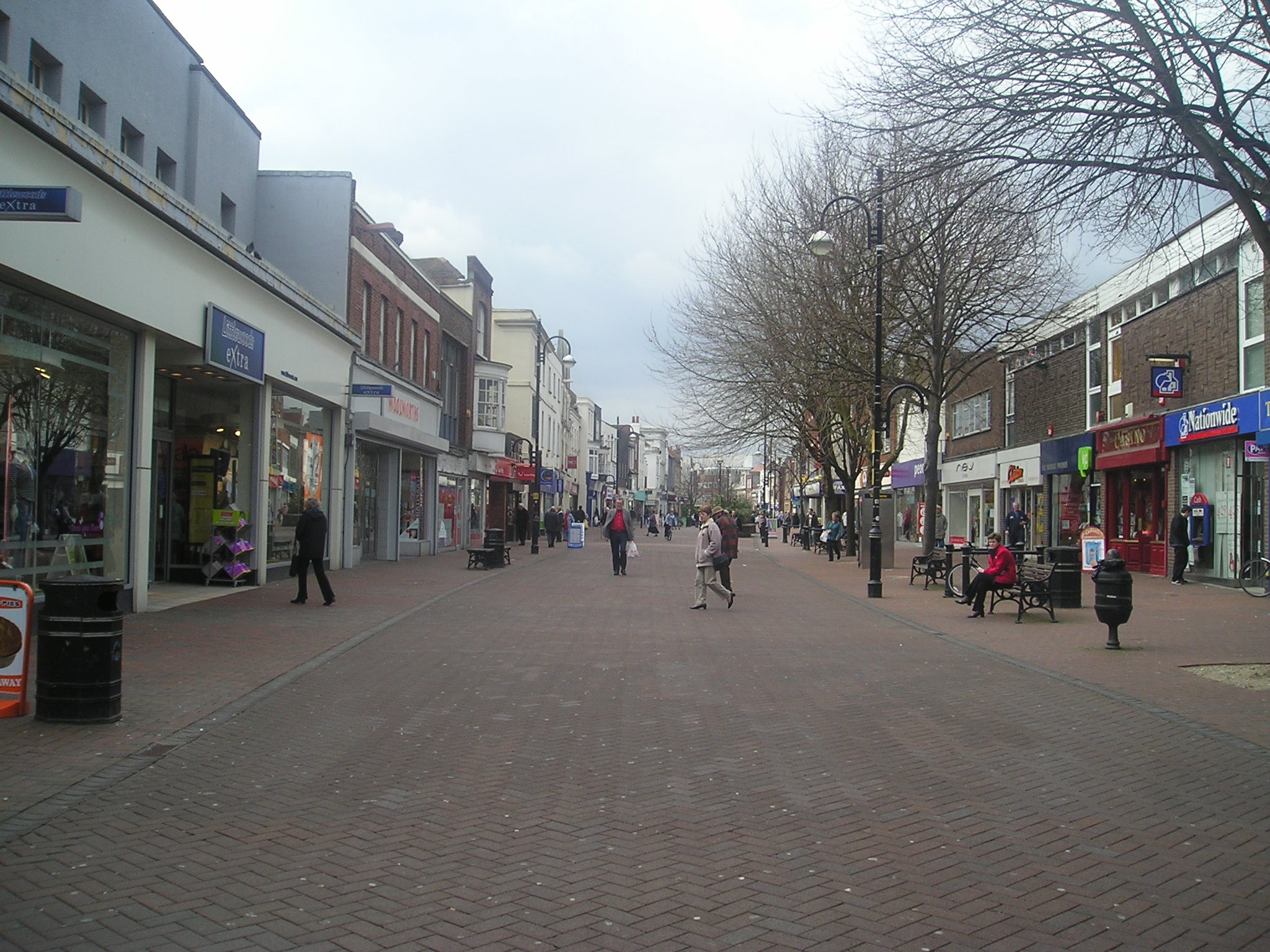 Gosport High Street